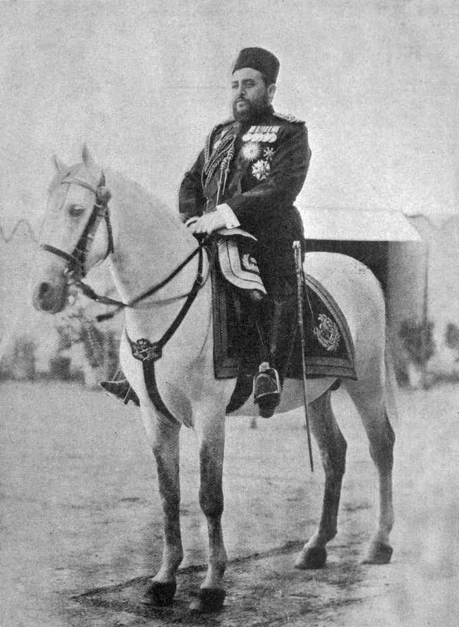 1907 illustration Original photo caption: HABIB ULLAH, AMIR OF AFGHANISTAN. A Full-Dress Portrait.